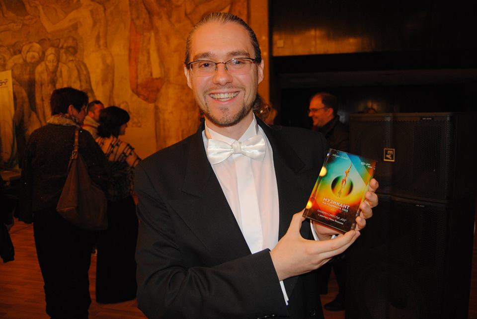 The conductor Ivan Yanakiev with the 432 Chamber Orchestra's "Debut of the year 2015" prize